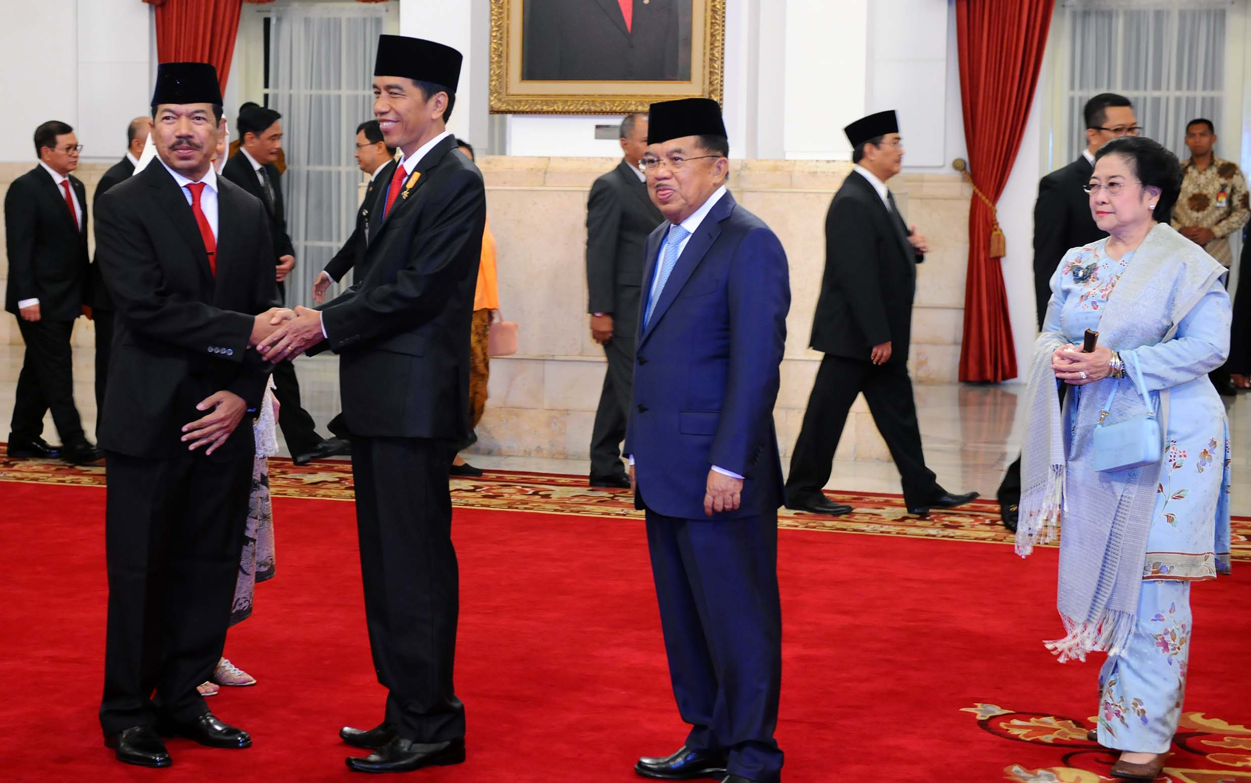 Newly appointed chief of the Indonesian cyber bureau Djoko Setiadi along with Indonesian President Joko Widodo, VP Jusuf Kalla, and Megawati Soekarnoputri